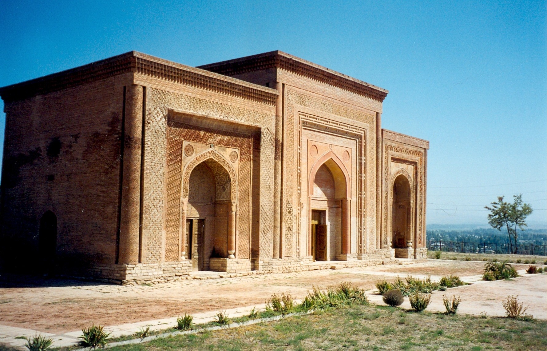 12th century mausoleum, Uzgen, Kyrgyzstan.